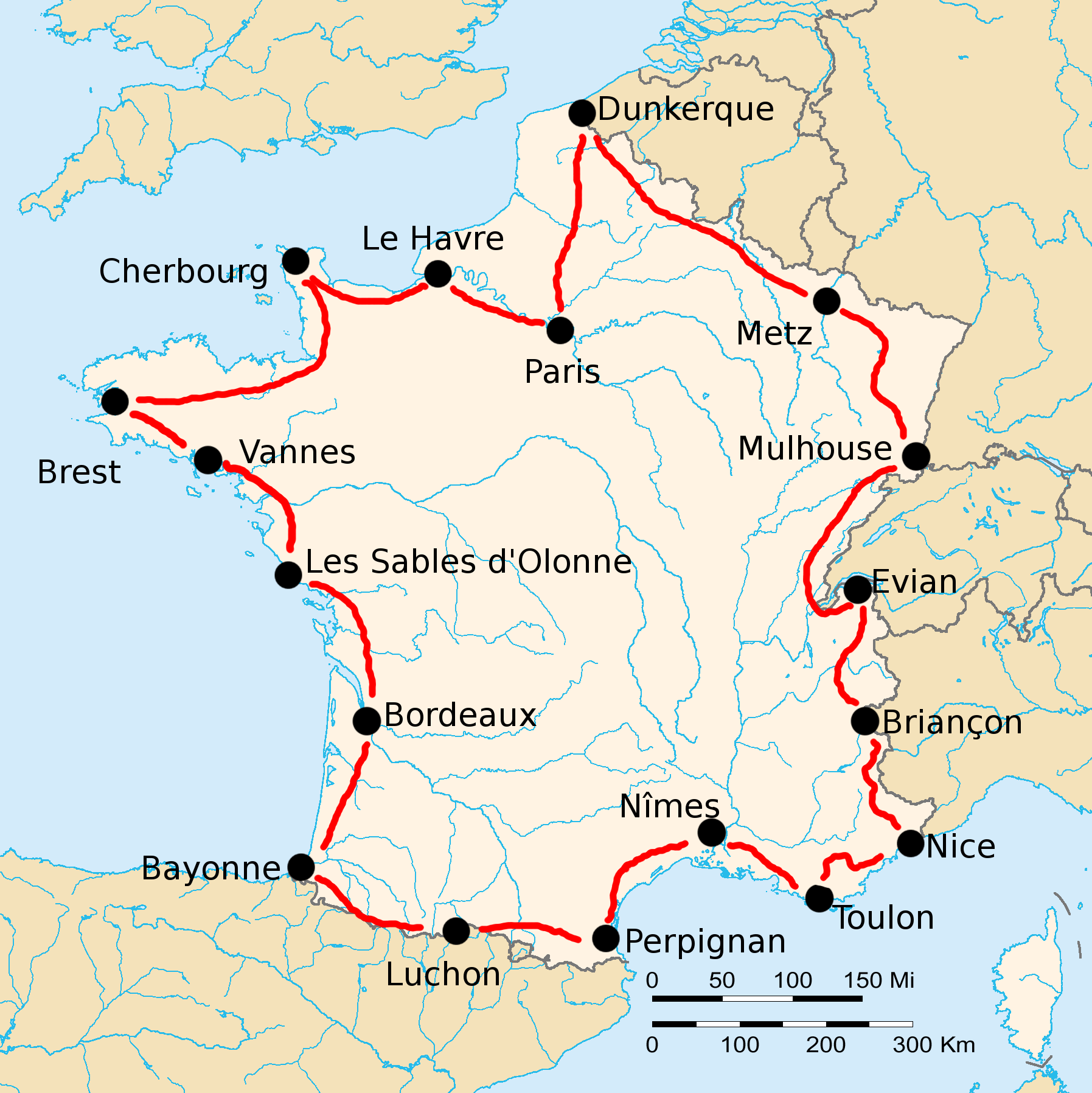 Route of the 1925 Tour de France, starting in Paris, run counter-clockwise.